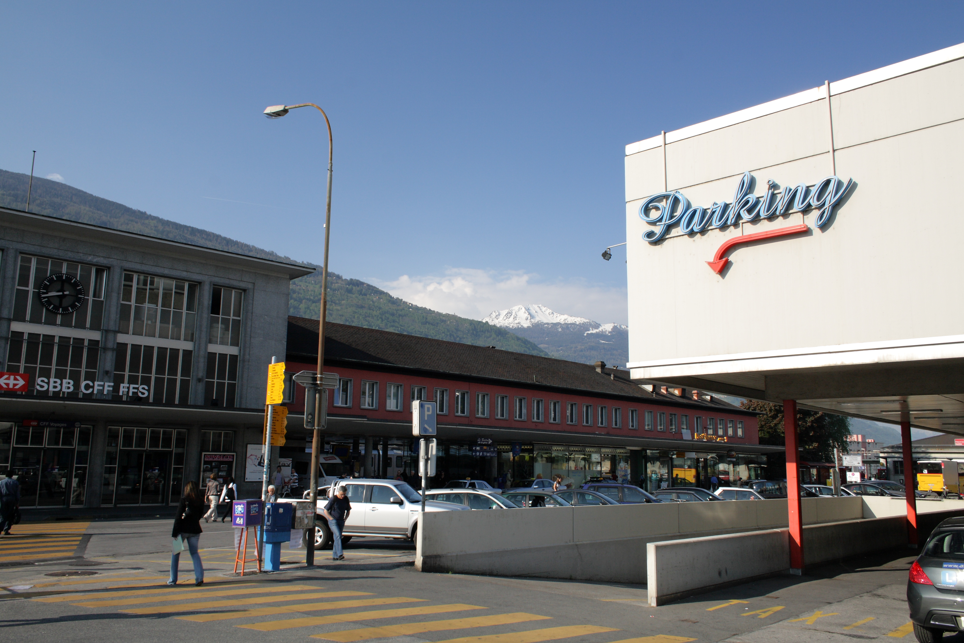 View of the station building at Sion railway station, Valais, Switzerland.